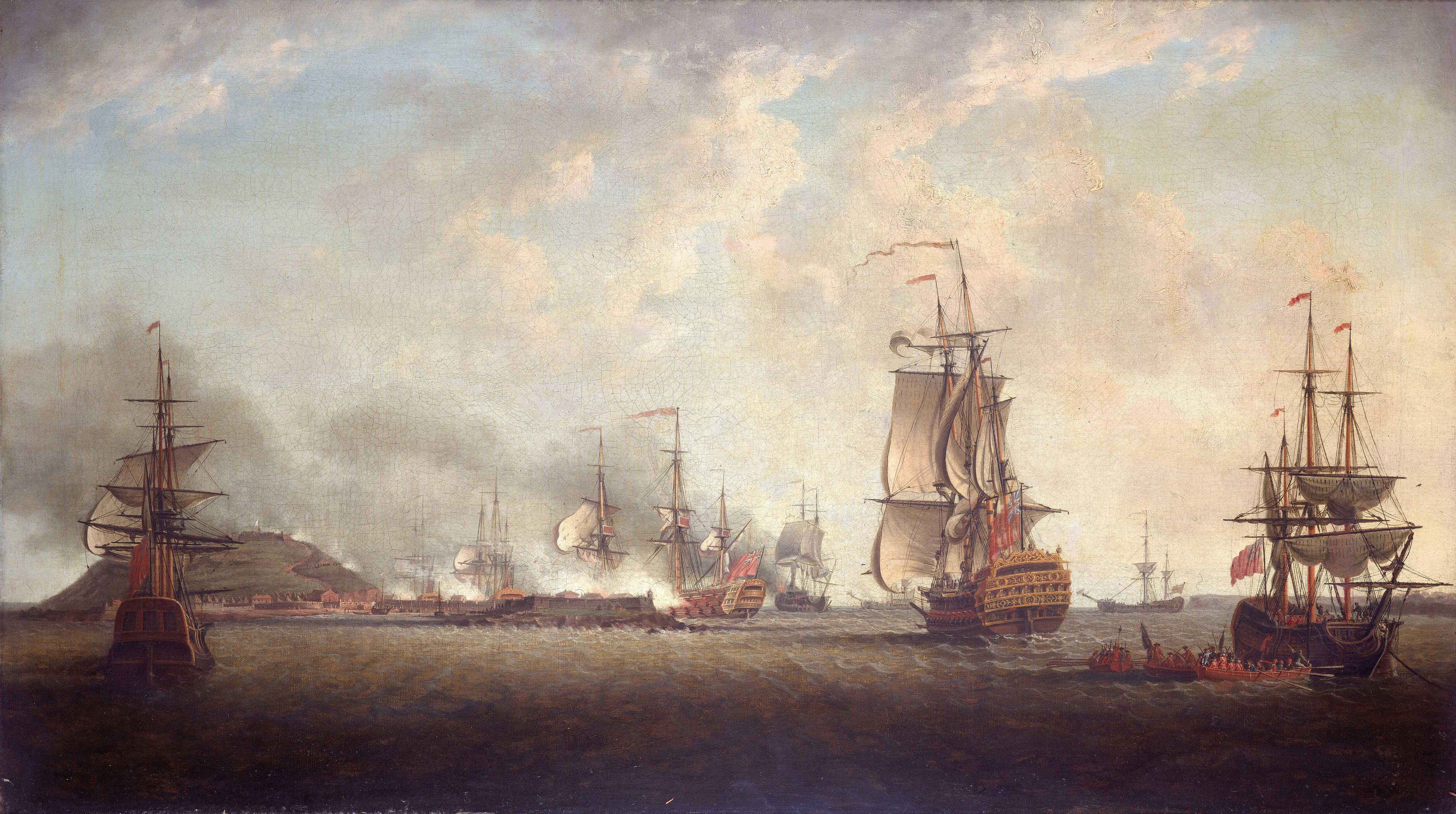 Attack on Goree, 29 December 1758 The island fortress of Goree lay off Dakar on the west coast of Africa. Its position gave the French a base from which to menace the English trade route to India and the East. It was therefore strategically important for the English to capture it every time they were at war with France. On the occasion recorded in this painting, the task was entrusted to Commodore the Honourable Augustus Keppel, who had been sent out after Commodore Marsh’s failure against Goree in May 1758. Against Keppel’s more powerful squadron the French surrendered the after a short bombardment. Goree was returned to French control at the conclusion of peace in 1763. The island with its mole on the right occupies the left background. Visible over the mole are the upper galleries and spars of the ‘Nasau’ and ‘Dunkirk’, engaging the batteries to port. Astern of them is the ‘Torbay’, also bombarding the mole. Beyond her and to the right is the ‘Prince Edward’ with smoke and flame issuing from her stern caused by a shot early in the action which blew up an ammunition box, killed two marines and sent the ensign staff over the side. In the right foreground a transport ship is at anchor starboard bow view disembarking troops for a landing. Astern of her is the ‘Fougueux’ port quarter view, sailing in towards the mole, and in the background beyond her two bomb ketches are in action. In the left background is another transport at anchor, almost stern on. One of a pair with BHC0388, this shows the island being retaken by Admiral Keppel. Attack on Goree, 29 December 1758